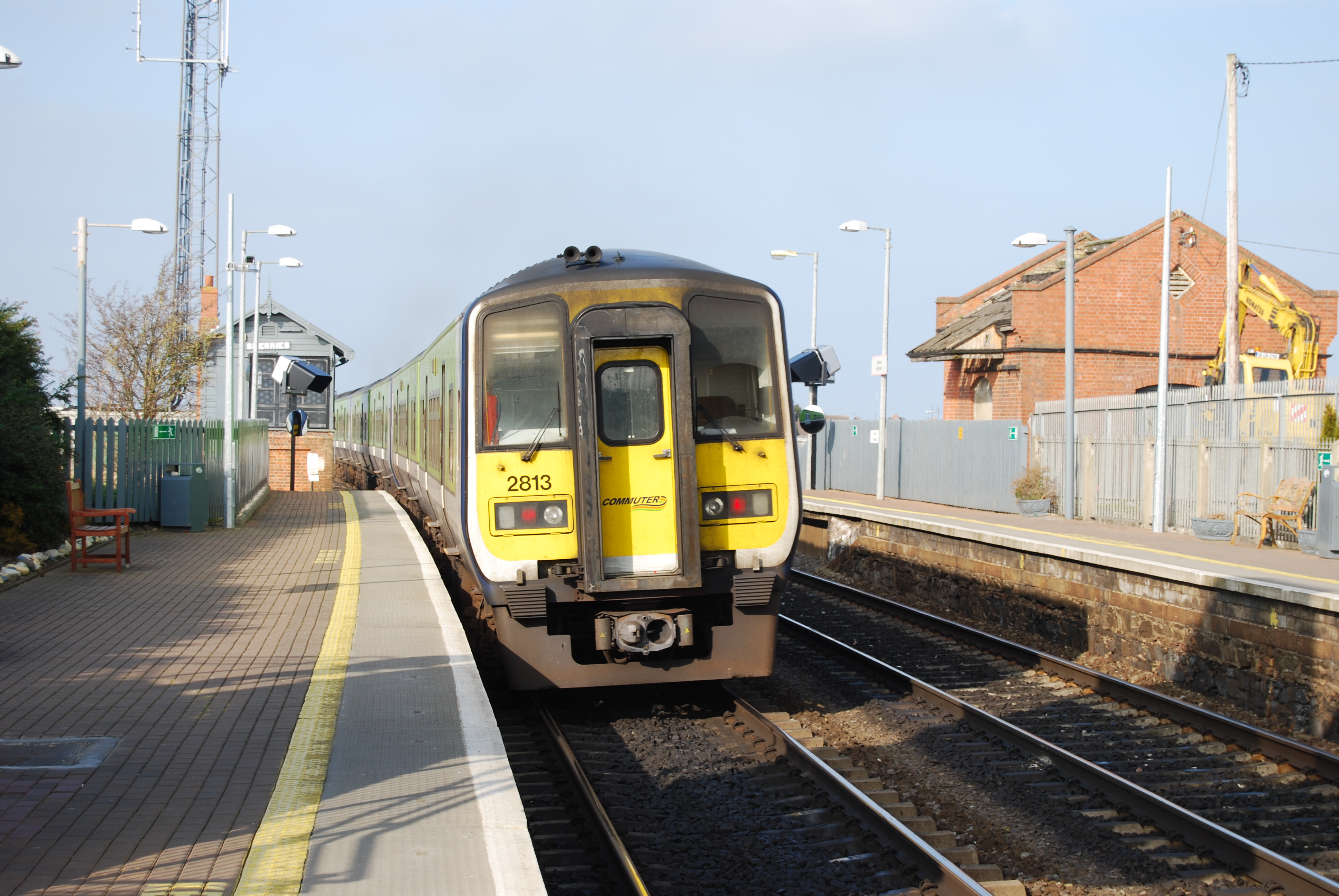 IE 2800 Class pulling out of Skerries Station.